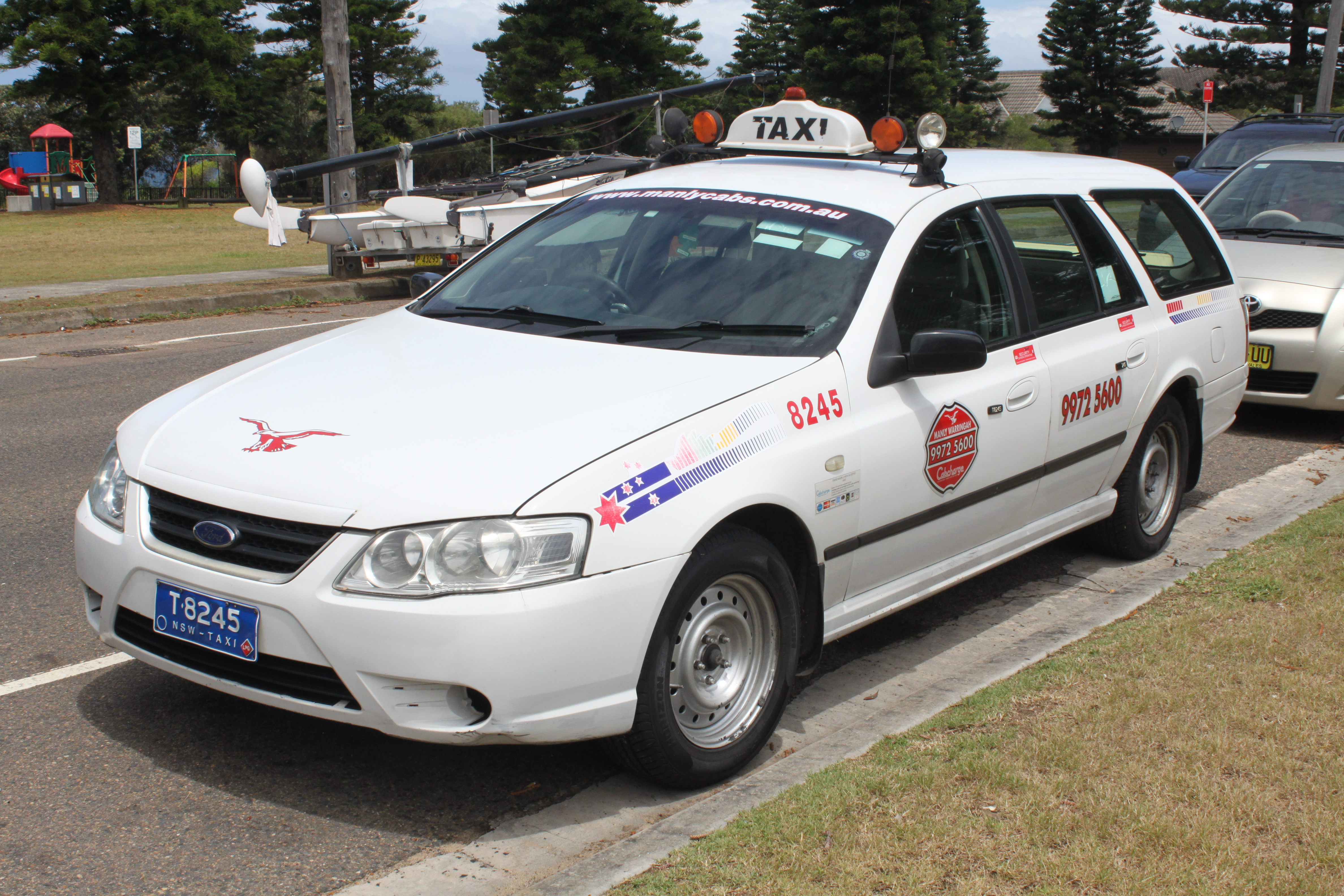 Ford Falcon BF MkII Wagon - Manly Warringah Taxi